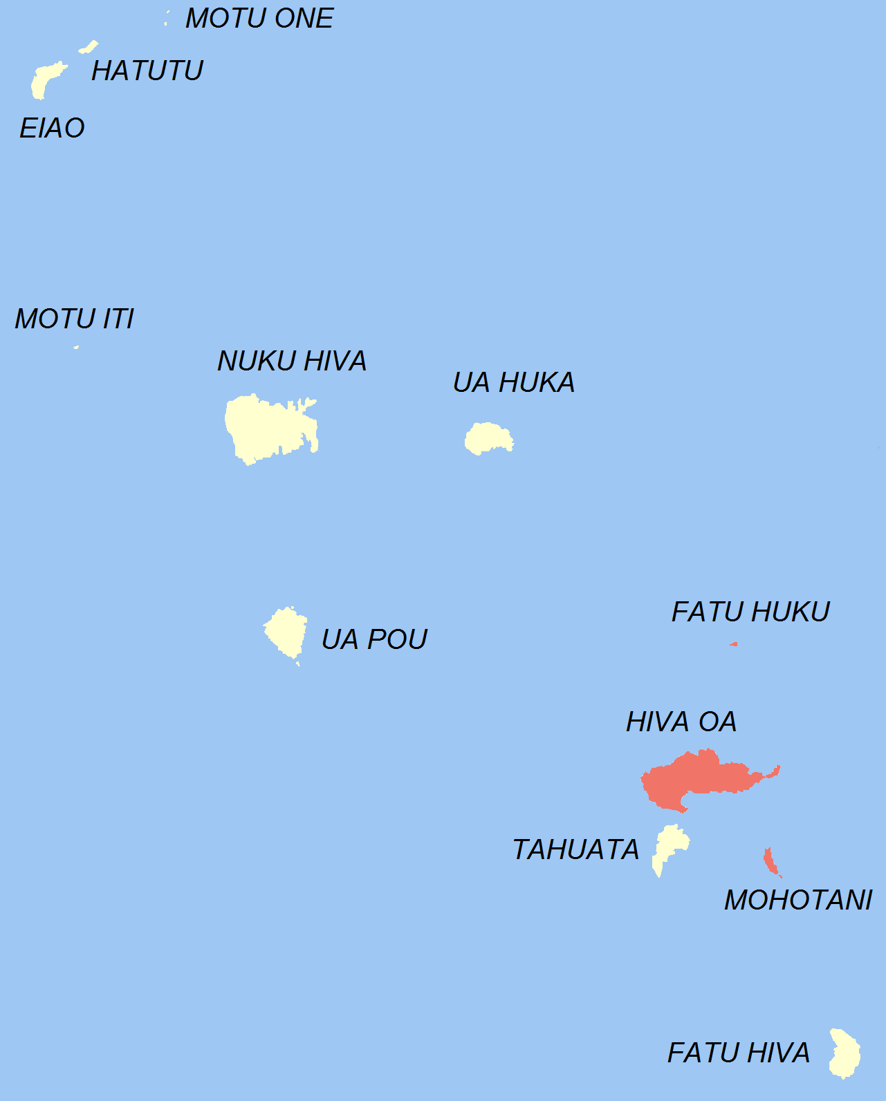 Map of the commune of Hiva-Oa, made by myself.